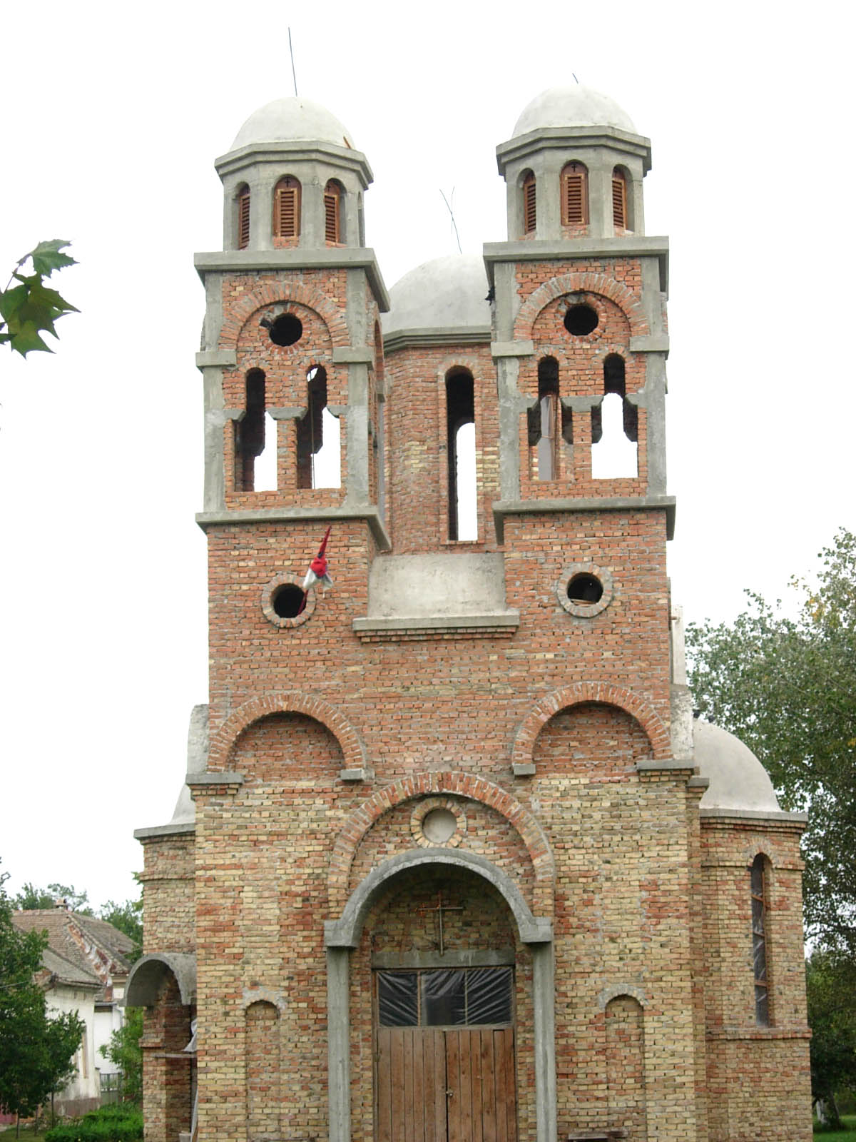 The new Orthodox church in Sutjeska.